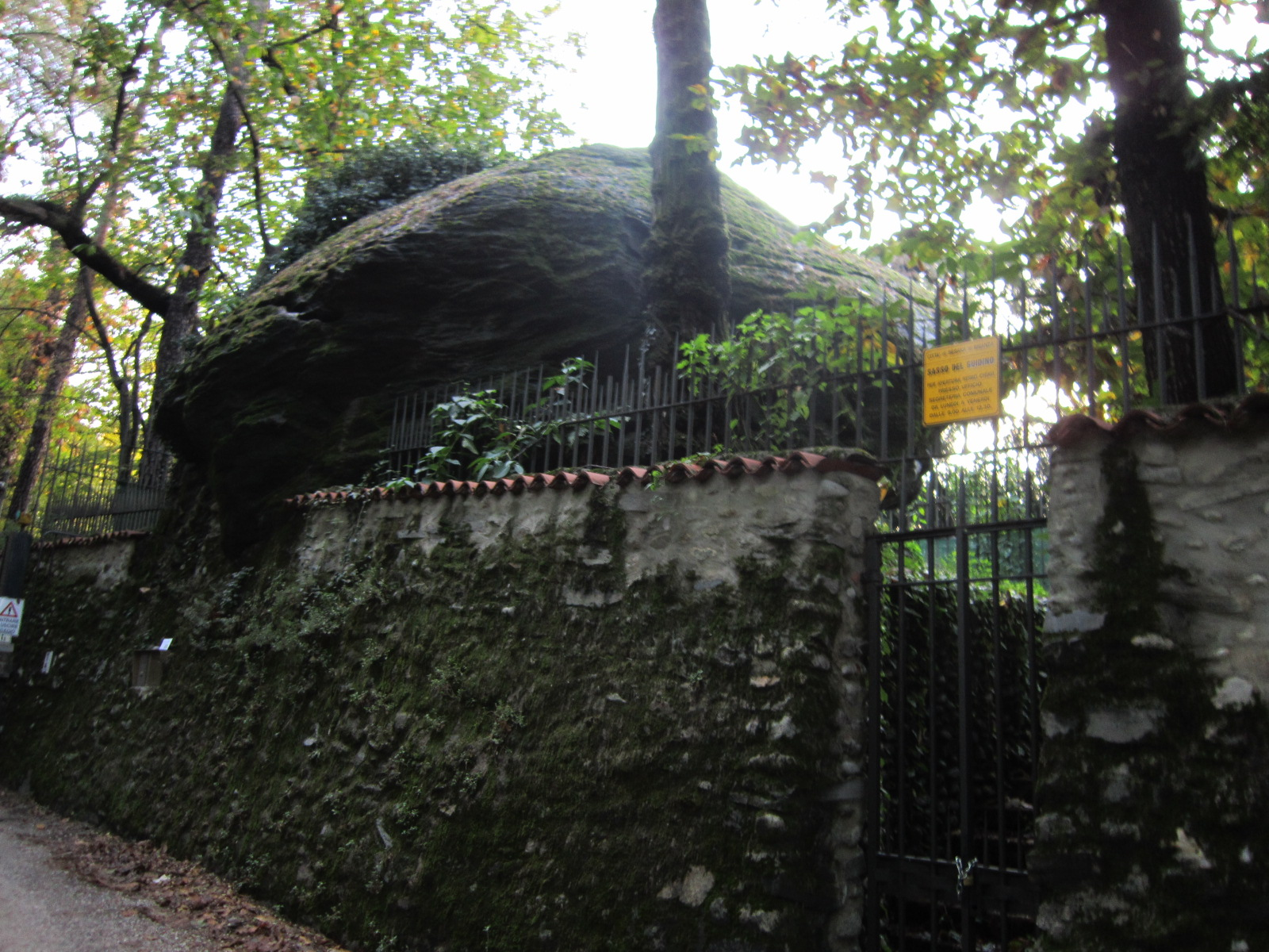 Natural monument Sasso of Guidino